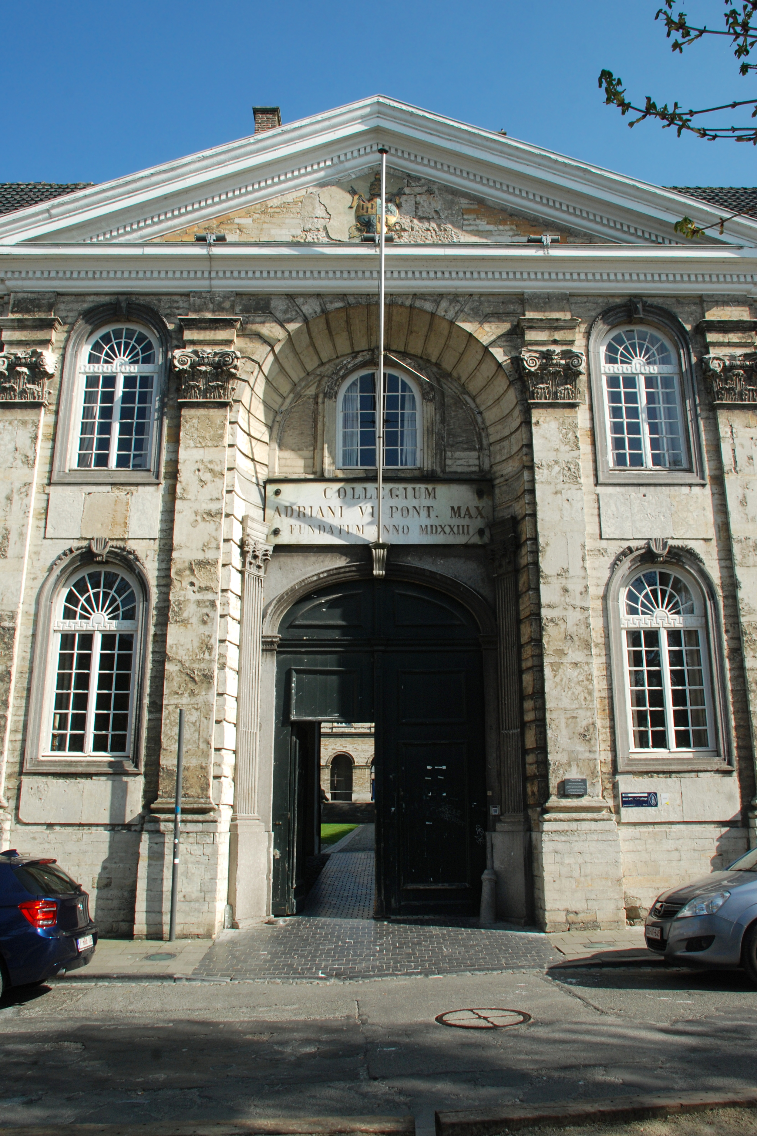 Belgium - Leuven - Pope Adrian VI college